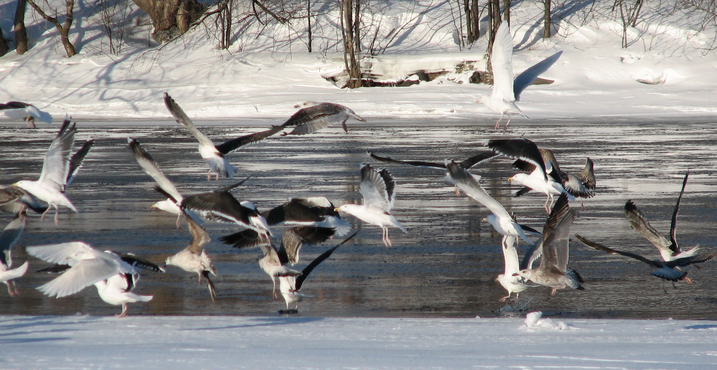 Great Black-backed Gulls (Larus marinus) and other gulls (see notes) taking flight from Rideau River, Ottawa, Ontario